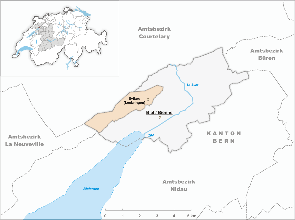 Municipality Evilard